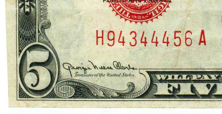 5 Dollar Bill, 1928 F Series